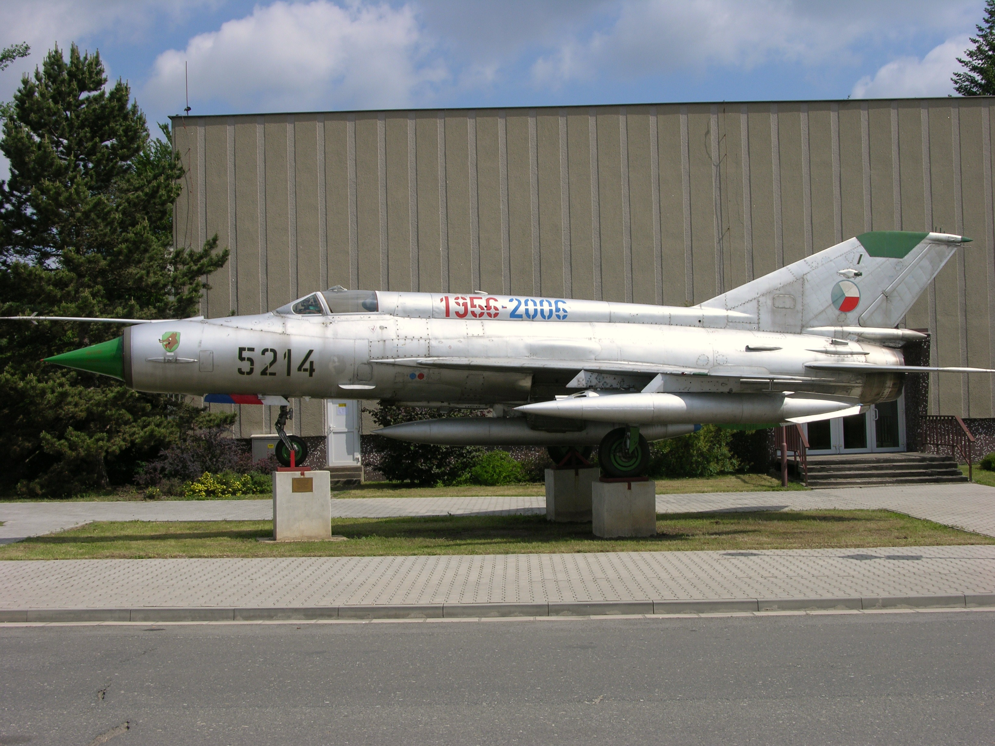 As you can see, the Czechs operated these for getting on for fifty years.